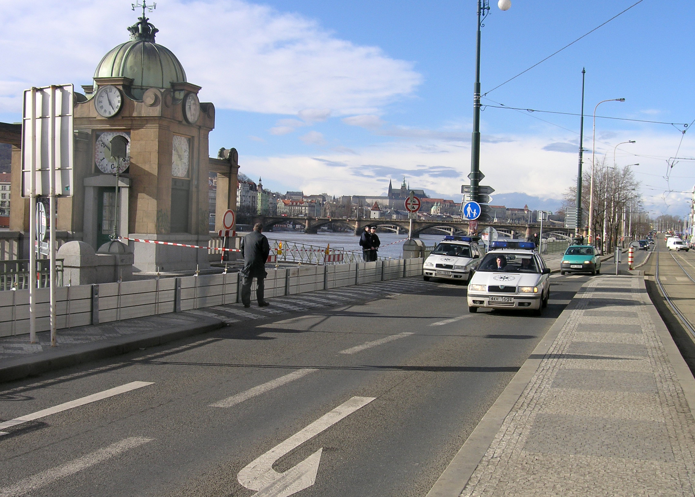 Rašínovo nábřeží street in New Town district, Prague